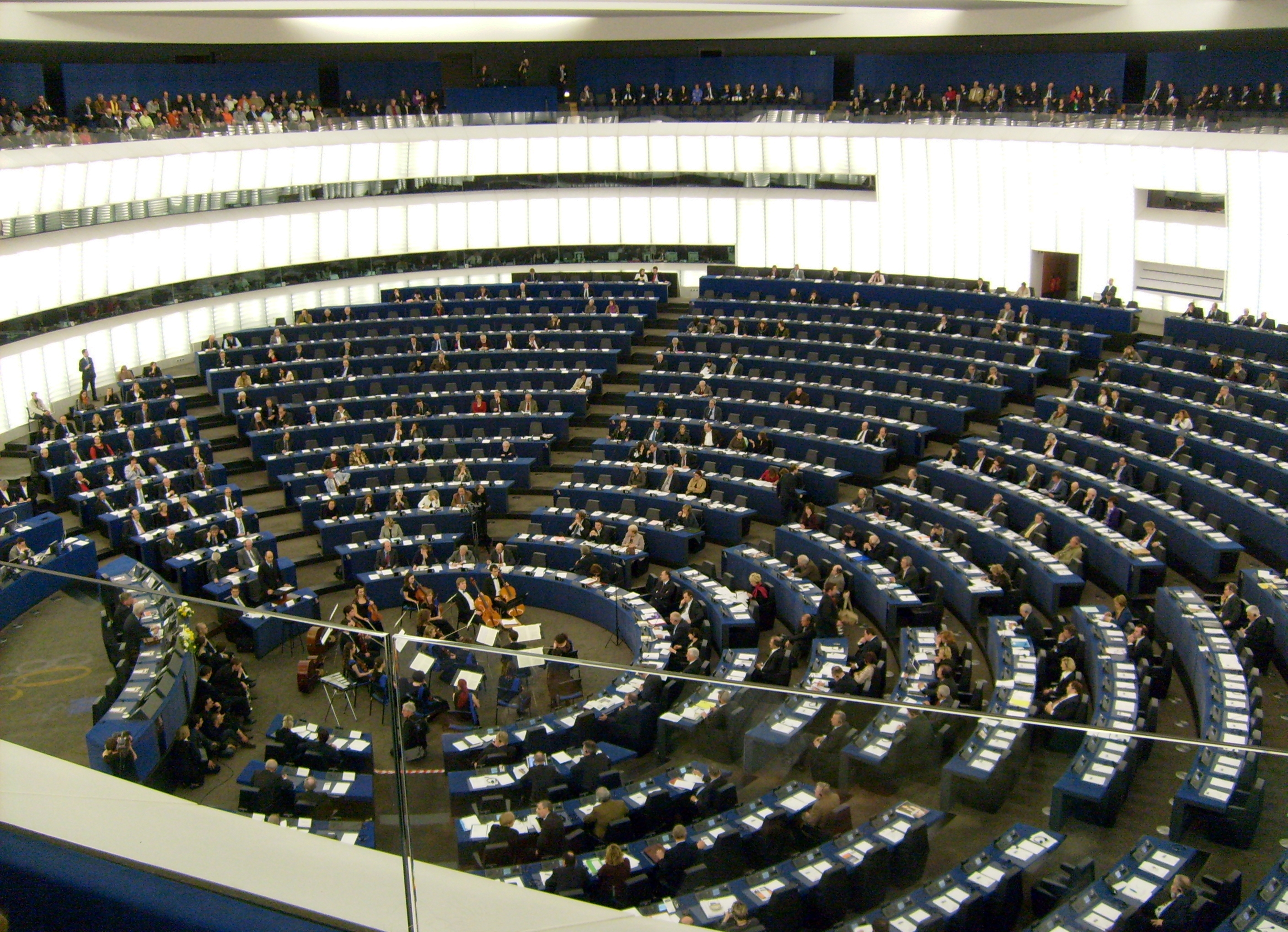 The orchestra in the center is not always present :-) This is the parliamentary meeting to celebrate of 50 years European Union (1958-2008).